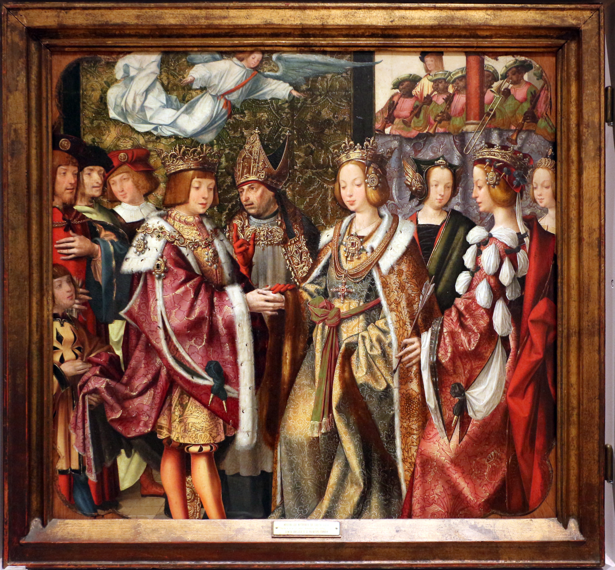 Retábulo de Santa Auta